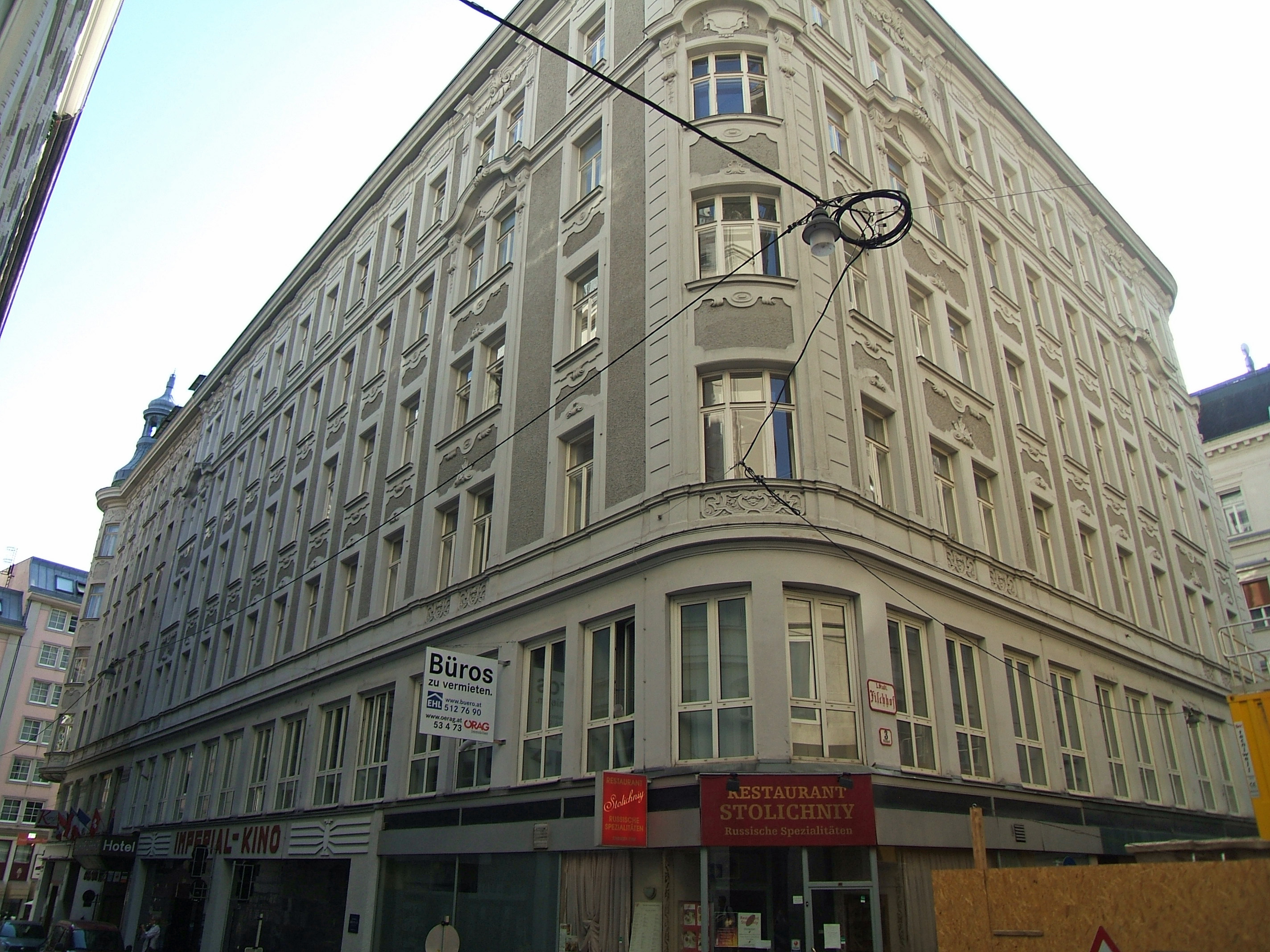 Tenement in the 1st district of Vienna, Bauernmarkt 22